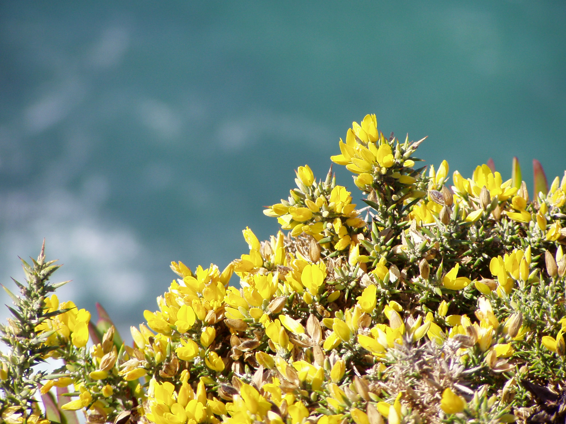 Lusitanian Gorse; Endemic to western Portugal. In seaside habitat, Cabo da Roca, Sintra, Portugal.